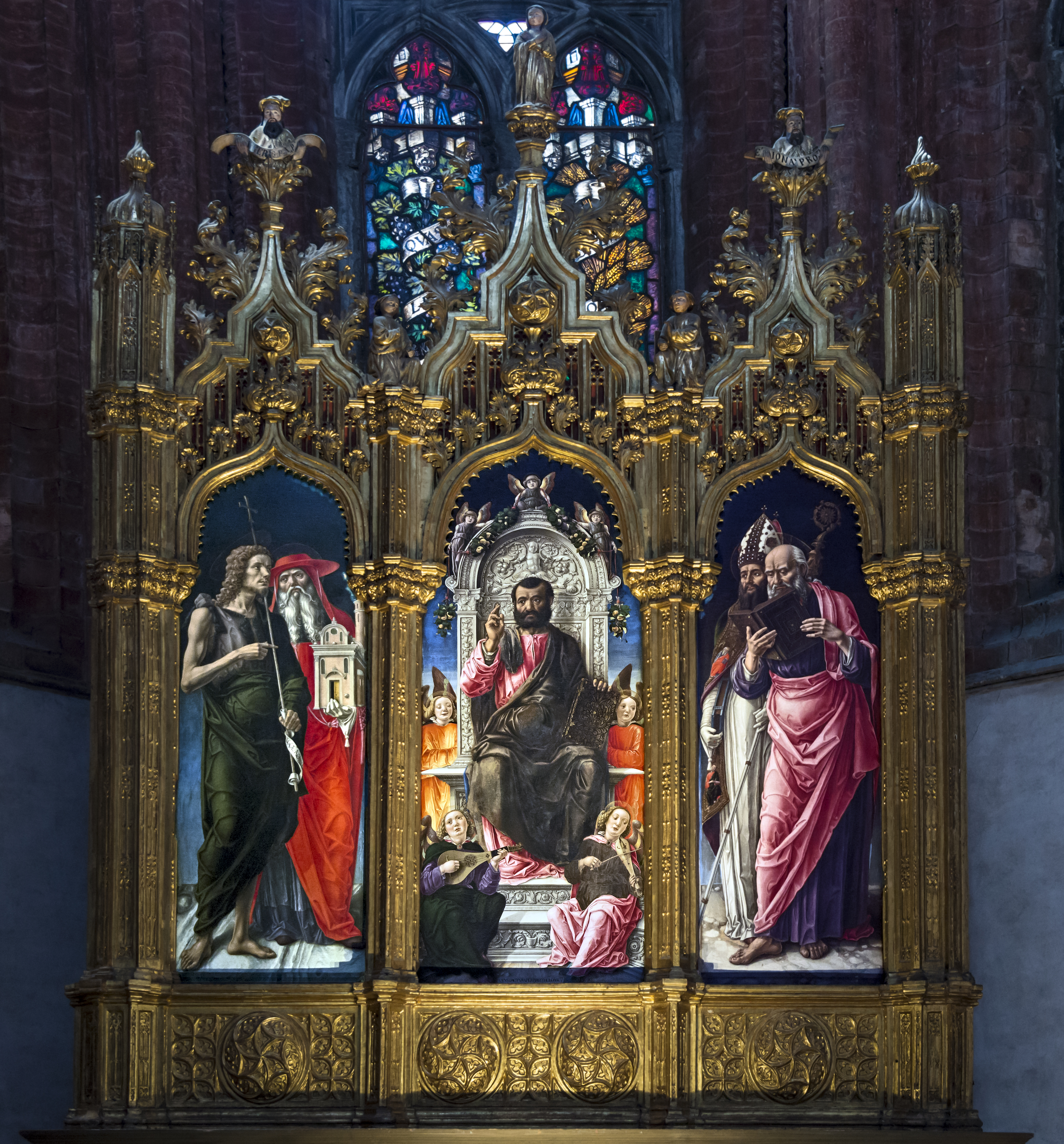 Santa Maria Gloriosa dei Frari. The Corner chapel. The triptych of Bartolomeo Vivarini Blessing of St. Mark Enthroned St. John the Baptist, St. Jerome, St. Peter and St. Nicolas , in 1474. Tempera on panel, 165 x 68 cm (central), 165 x 57 cm (wings).